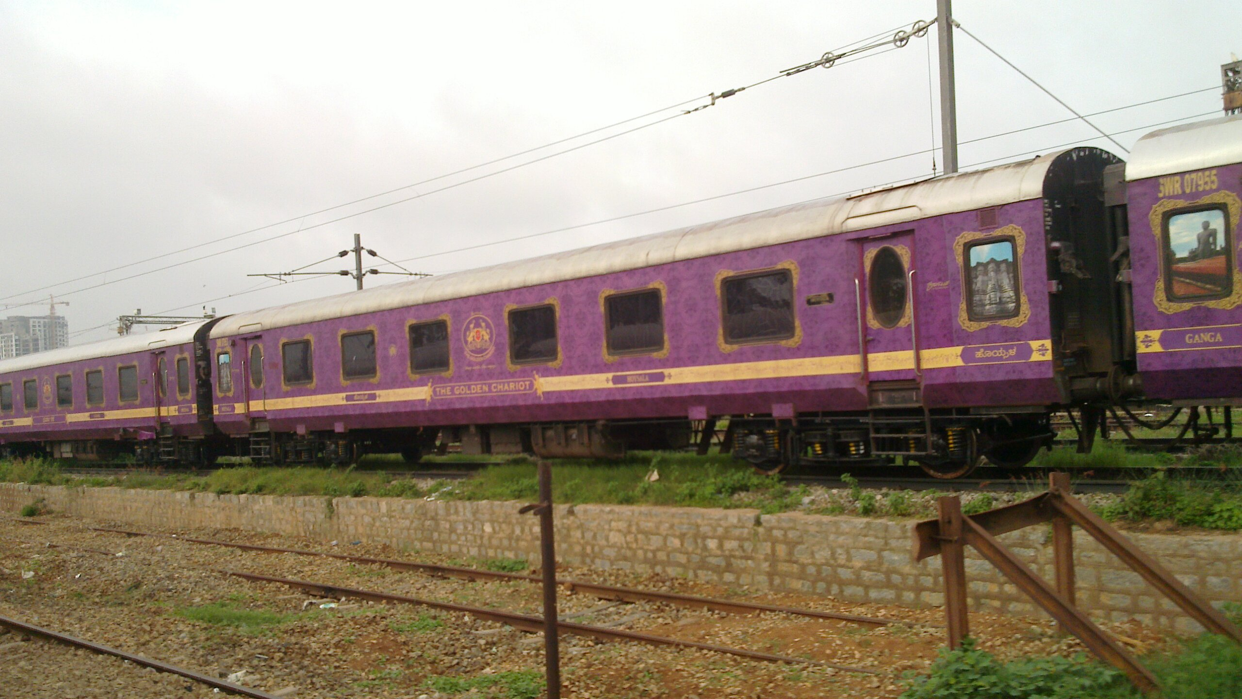 The Golden Chariot, as seen near Arsikere.